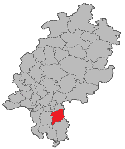 Map of the district court Dieburg in Hesse